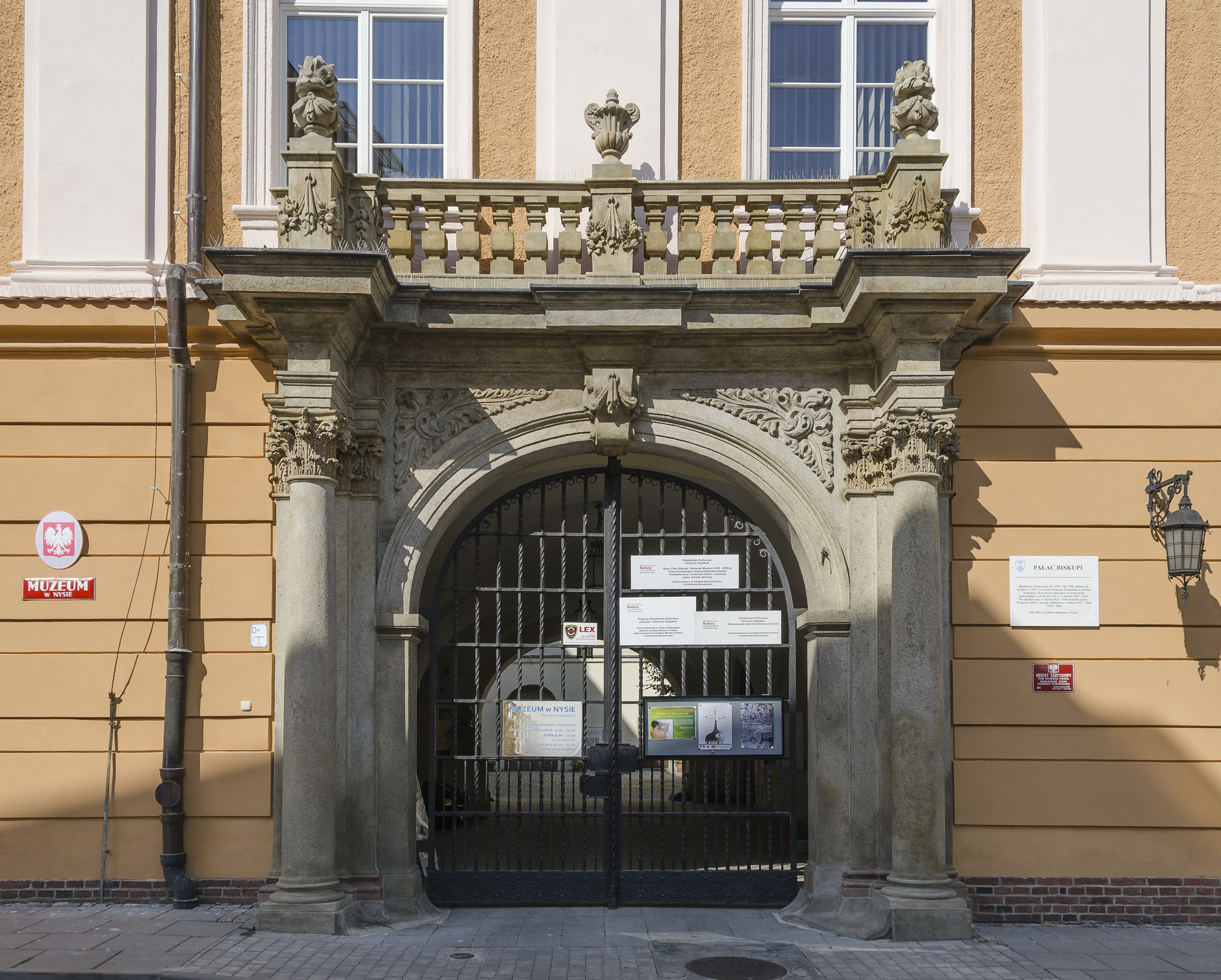 Bishops Palace in Nysa